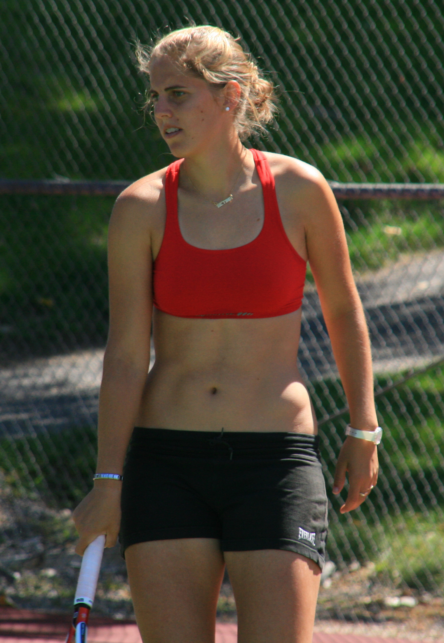 Betina Jozami practicing at the Coleman Vision Tennis Championship in Albuquerque, New Mexico.